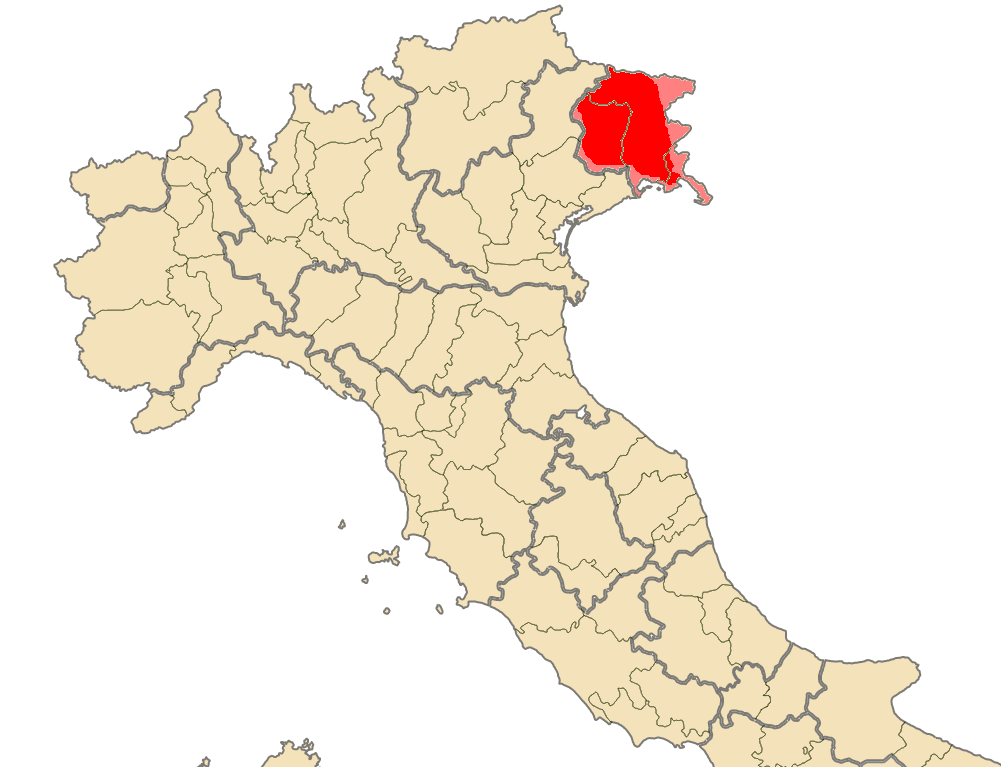 Friulan language.